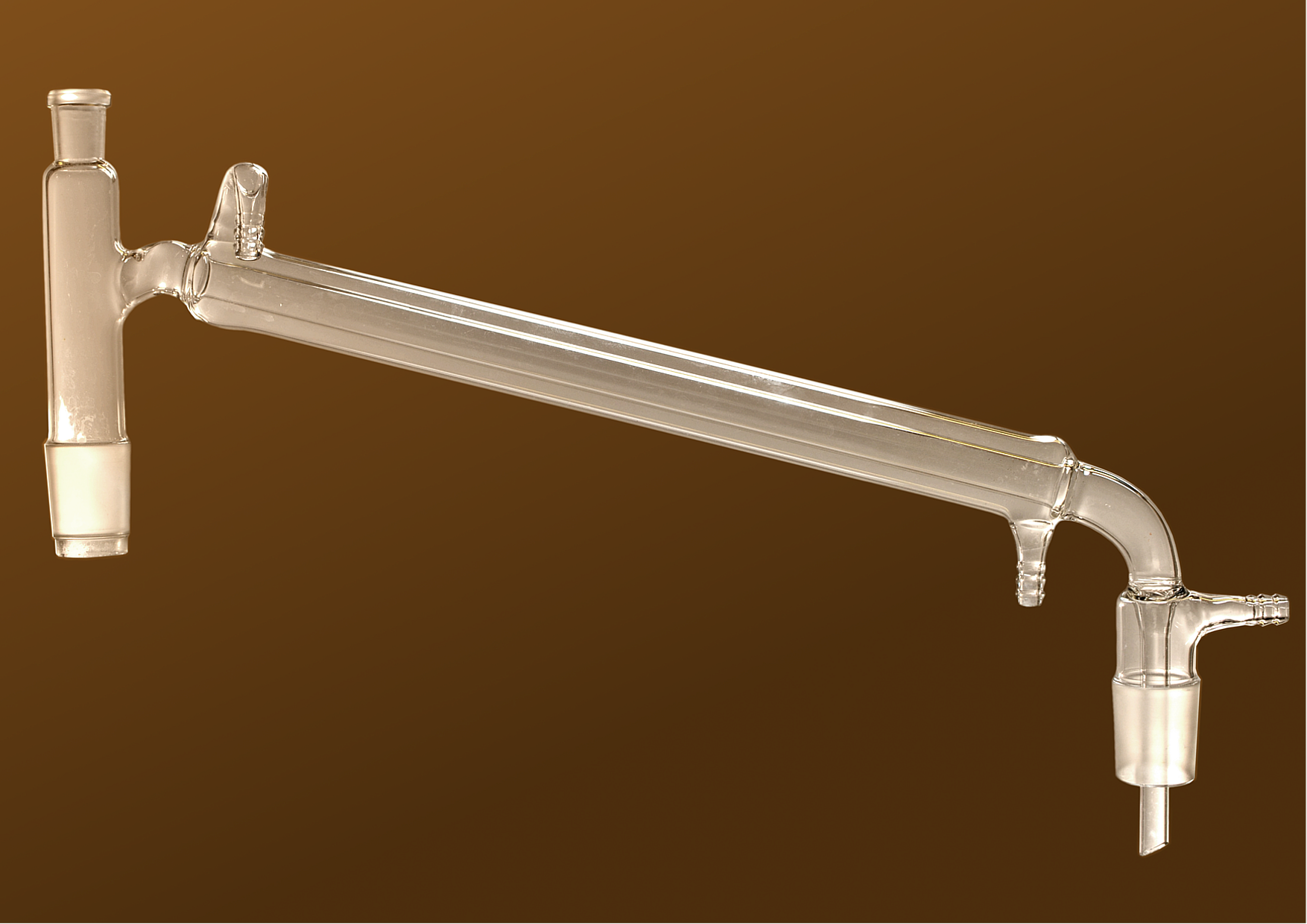 Destillation Link brown backround